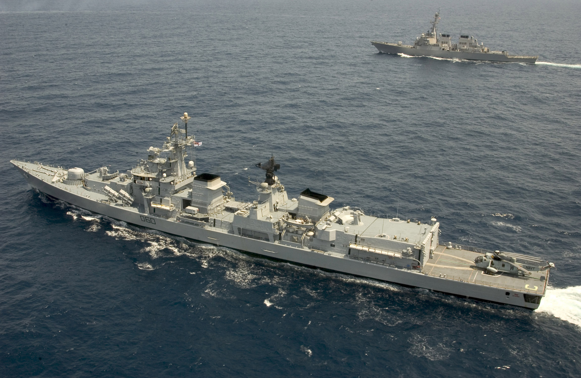 070409-N-9851B-003 PHILIPPINE SEA (April 9, 2007) - Indian Navy Delhi-class guided-missile destroyer INS Mysore (D 60) and US Navy Arleigh Burke-class guided-missile destroyer USS Fitzgerald (DDG 62) transit in formation in support of Exercise Malabar 07-01. Malabar is a bilateral U.S.-Indian Navy training exercise off the coast of Okinawa, Japan. U.S. Navy photo by Mass Communication Specialist 1st Class John L. Beeman (RELEASED)